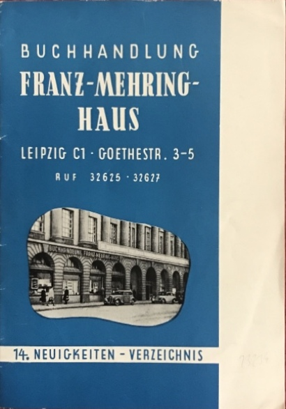 Front cover of an advertisement of the bookshop Franz-Mehring-Haus in Leipzig from 1952, showing some shopwindows in the first floor